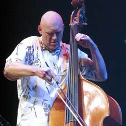 Torsten Müller, German doublebass player (born 1957)